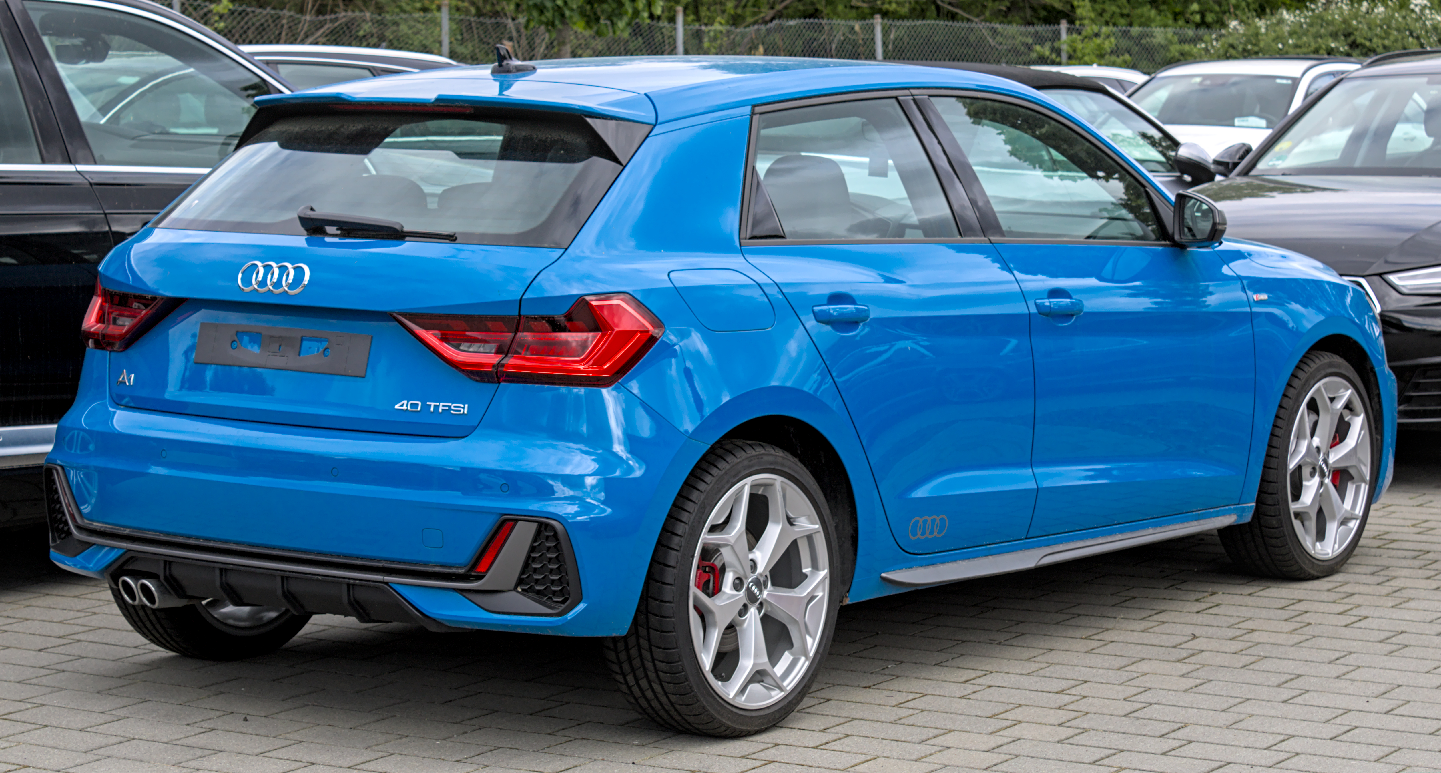 Audi_A1_(2018) in Stuttgart-Vaihingen